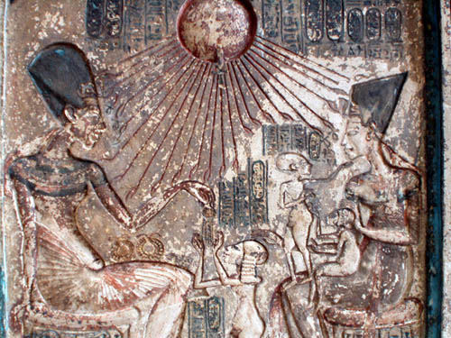 Stela of Akhenaten and his family. Egypt, Cairo, Egyptian Museum, main floor, gallery 8, JE 44865 (H = 44 cm)